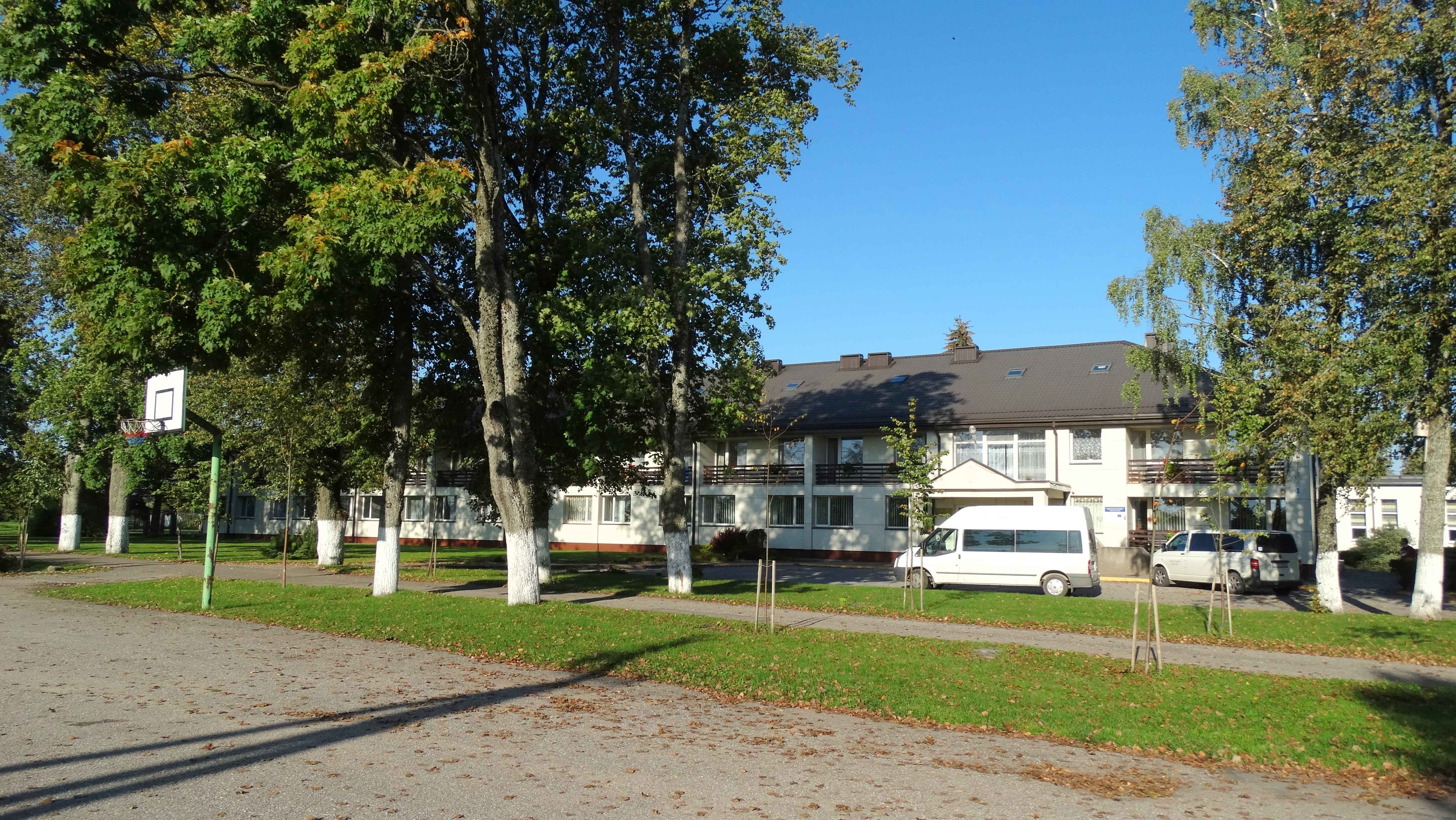 Jasiuliškis, Ukmergė district, Lithuania